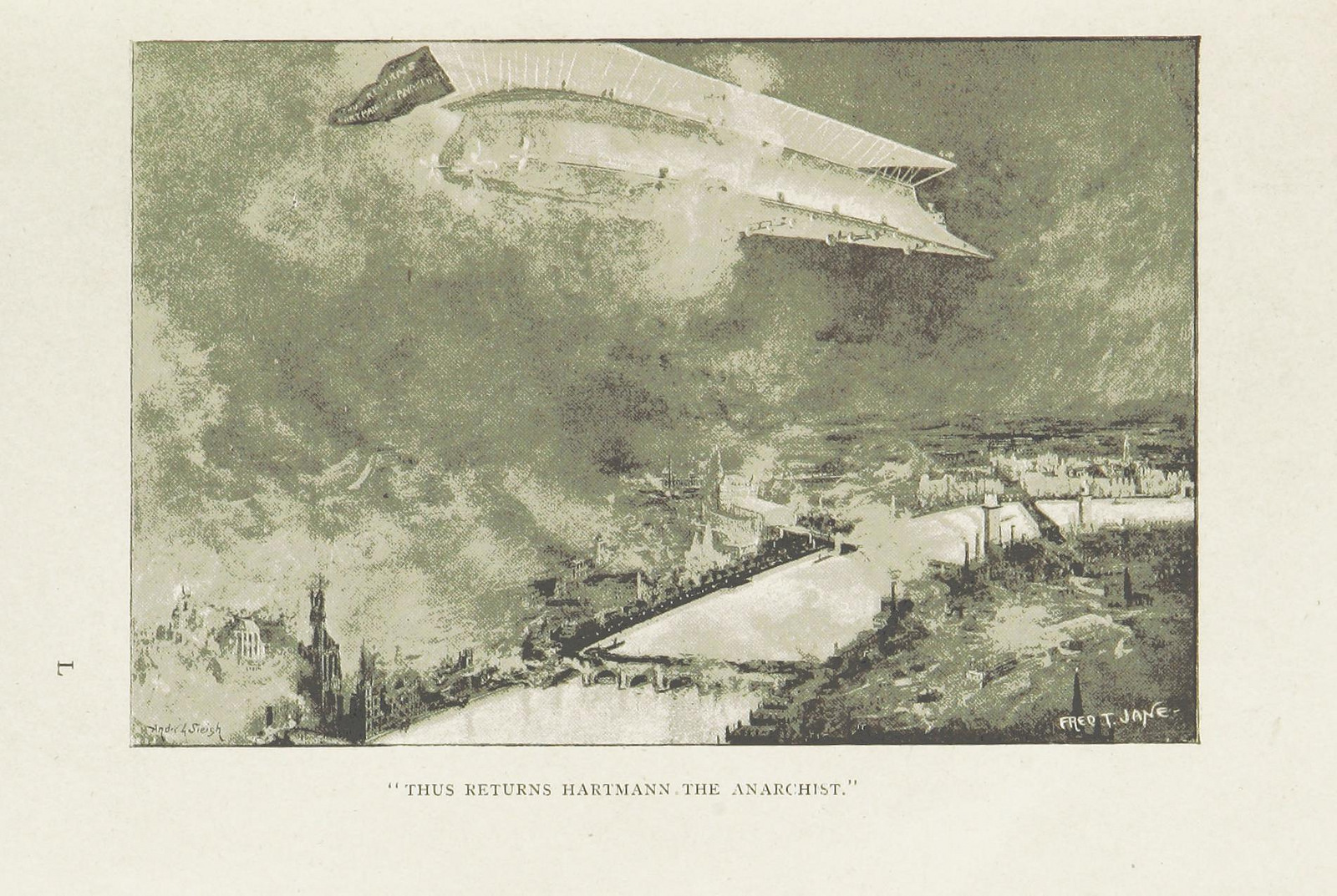 "Thus returns Hartmann the Anarchist." Image taken from page 157 of 'Hartmann the Anarchist, etc. [A novel.]' Published 1892.